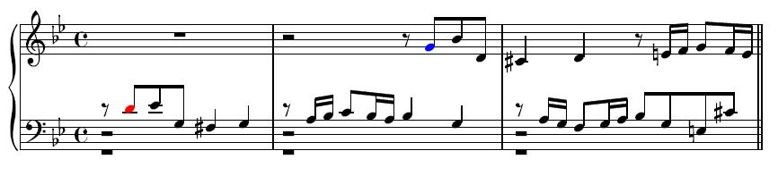 Example of a tonal answer in a fugal exposition. This is from the exposition of J.S. Bach's Fugue no. 16, in G minor, BWV 861, from The Well-Tempered Clavier, Book 1. It has been typeset in Lilypond from the Bach Gesellschaft Edition (1866), and is in the public domain.